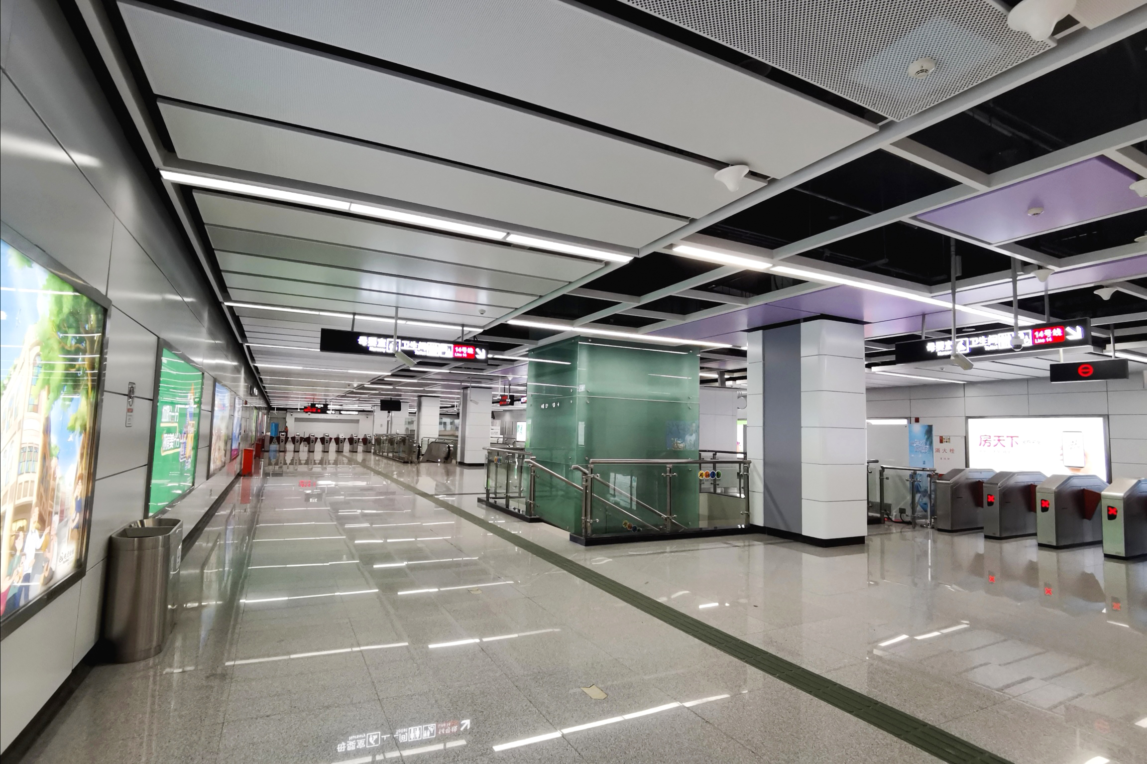 广州地铁镇龙北站